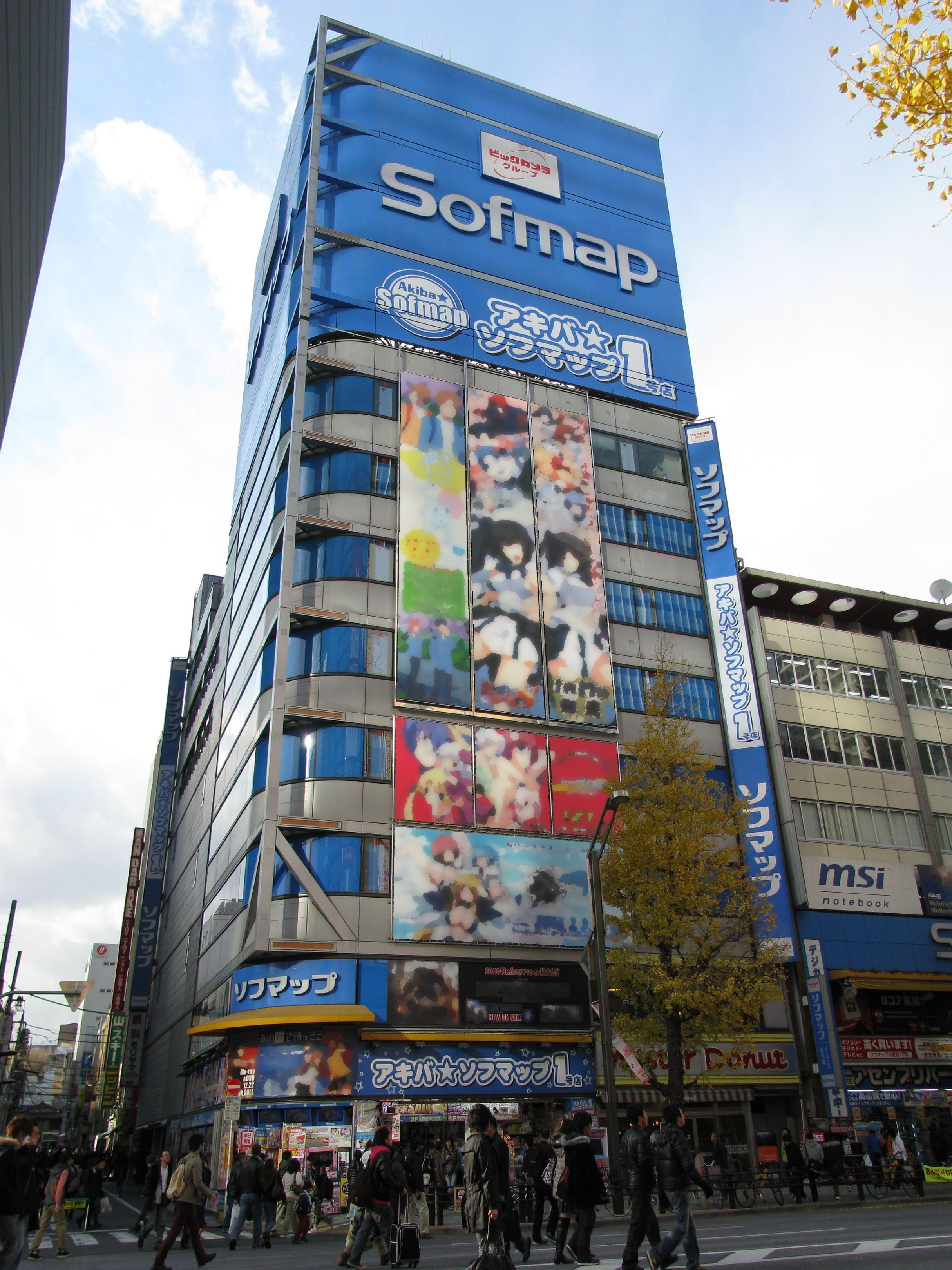 The Akiba-Sofmap 1st. This location is Akihabara in Chiyoda, Tokyo, Japan.